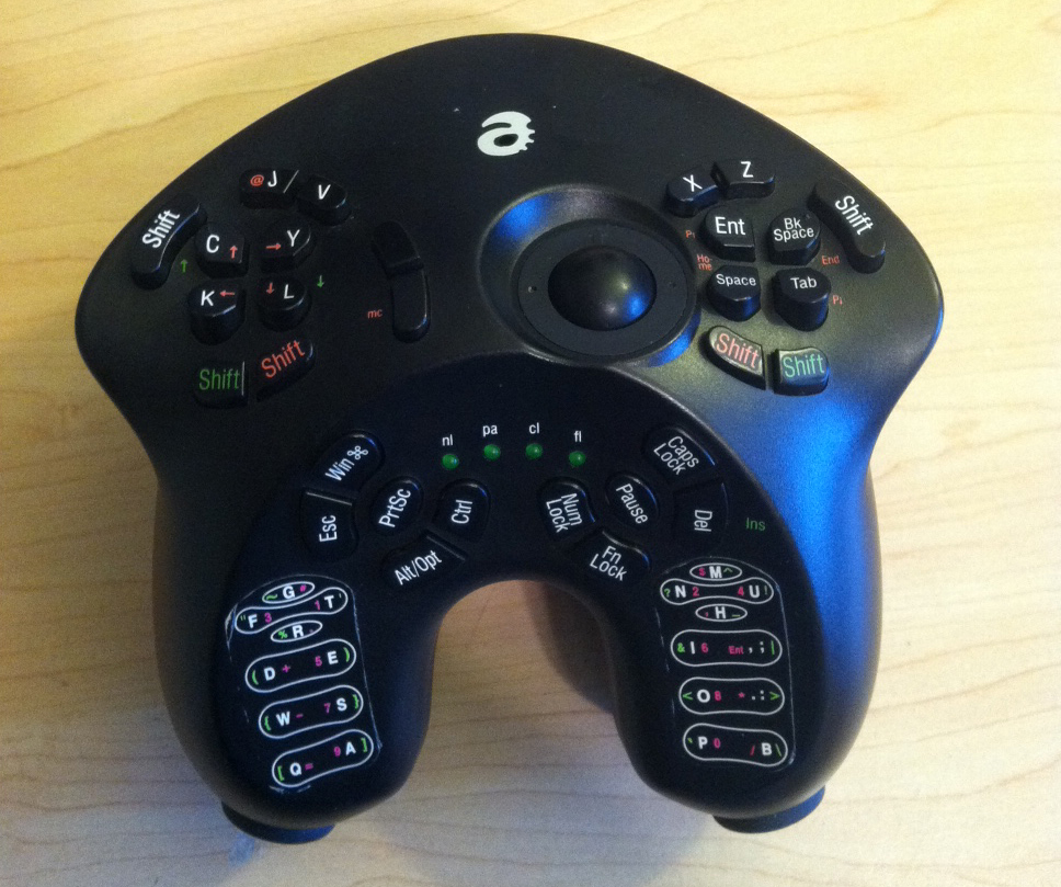 A photo of the AlphaGrip keyboard lying on top of a desk